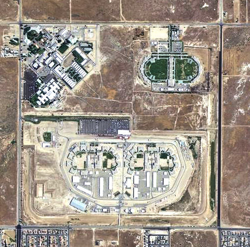 USGS digital orthophoto of War Eagle Field in California